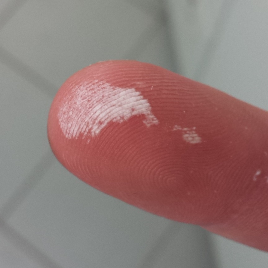 Hydrogen peroxide "burns" on a finger